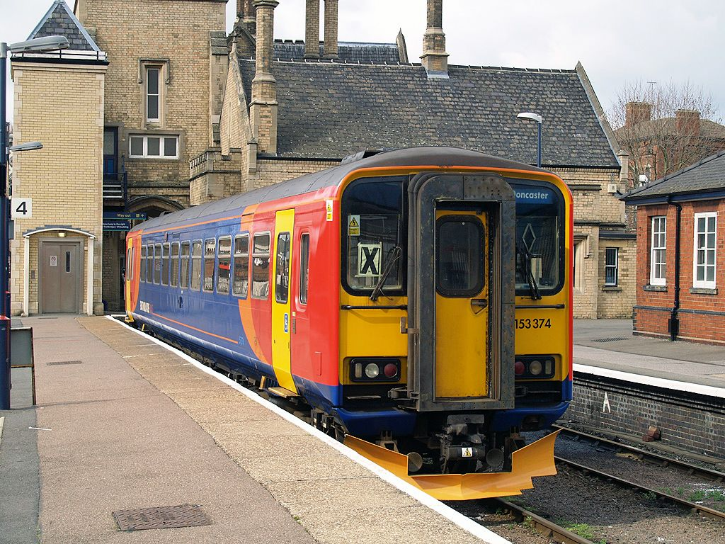 East Midland Trains (leased from Angel Trains) former British Railways Hunslet-Barclay Limited rebuilt Leyland Bus Limited class 153 ‘Super Sprinter’ diesel-hydraulic railcar unit number 153 374 (57374) of Nottingham TMD stands on platform 4 at Lincoln station prior to working the 14:50 (SX) Lincoln to Peterborough (2K29). Wednesday 19th March 2008